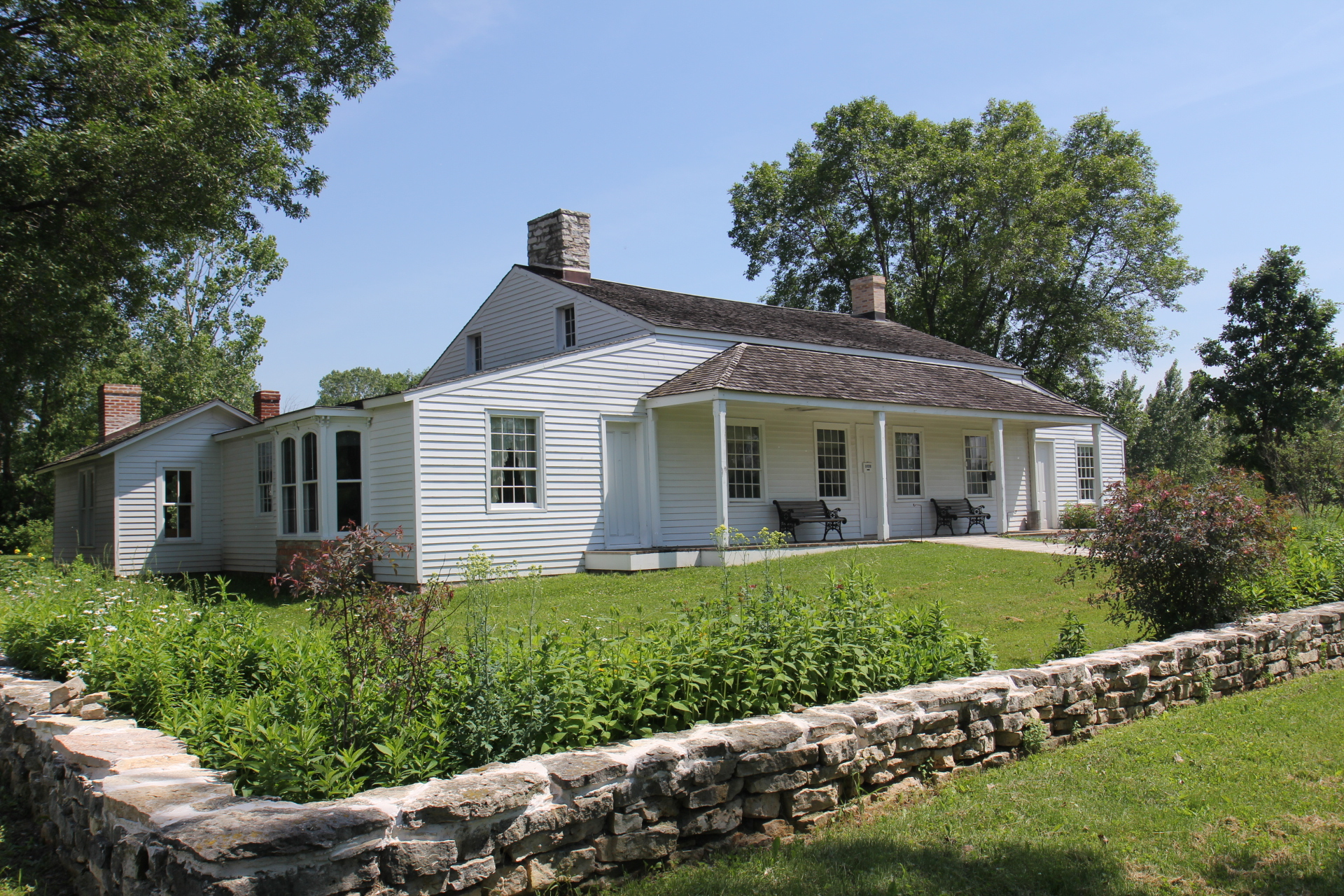 The Tank Cottage at Heritage Hill State Park. It was built in the early 1800 before Wisconsin became a state in 1848. The cottage is listed on the National Register of Historic Places.